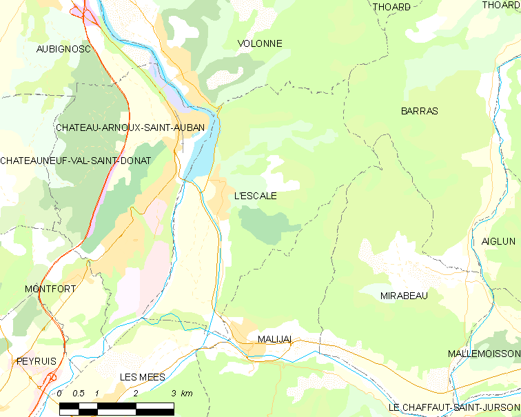 Map commune FR insee code 04079.png Légende